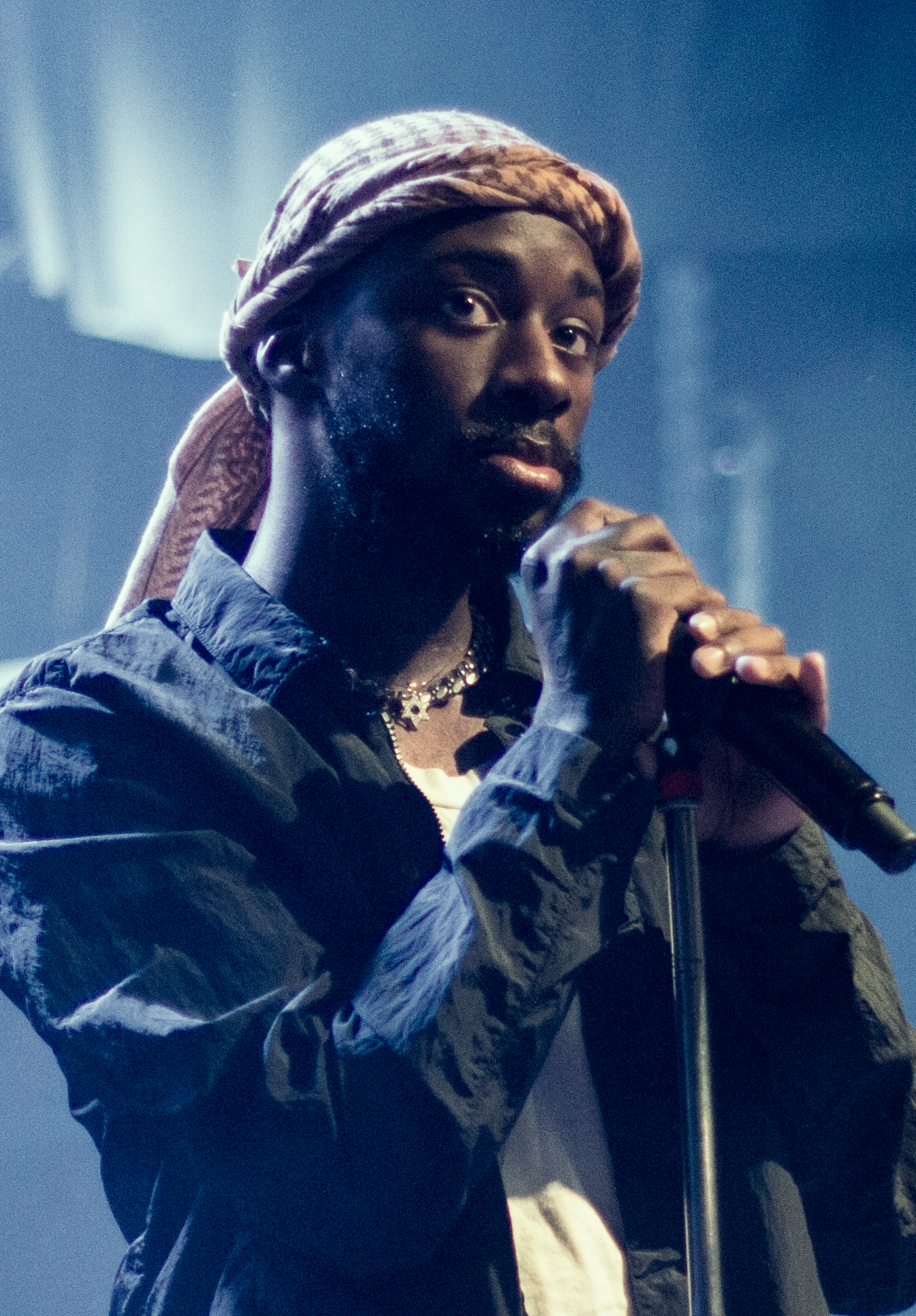 Goldlink performing in December 2017